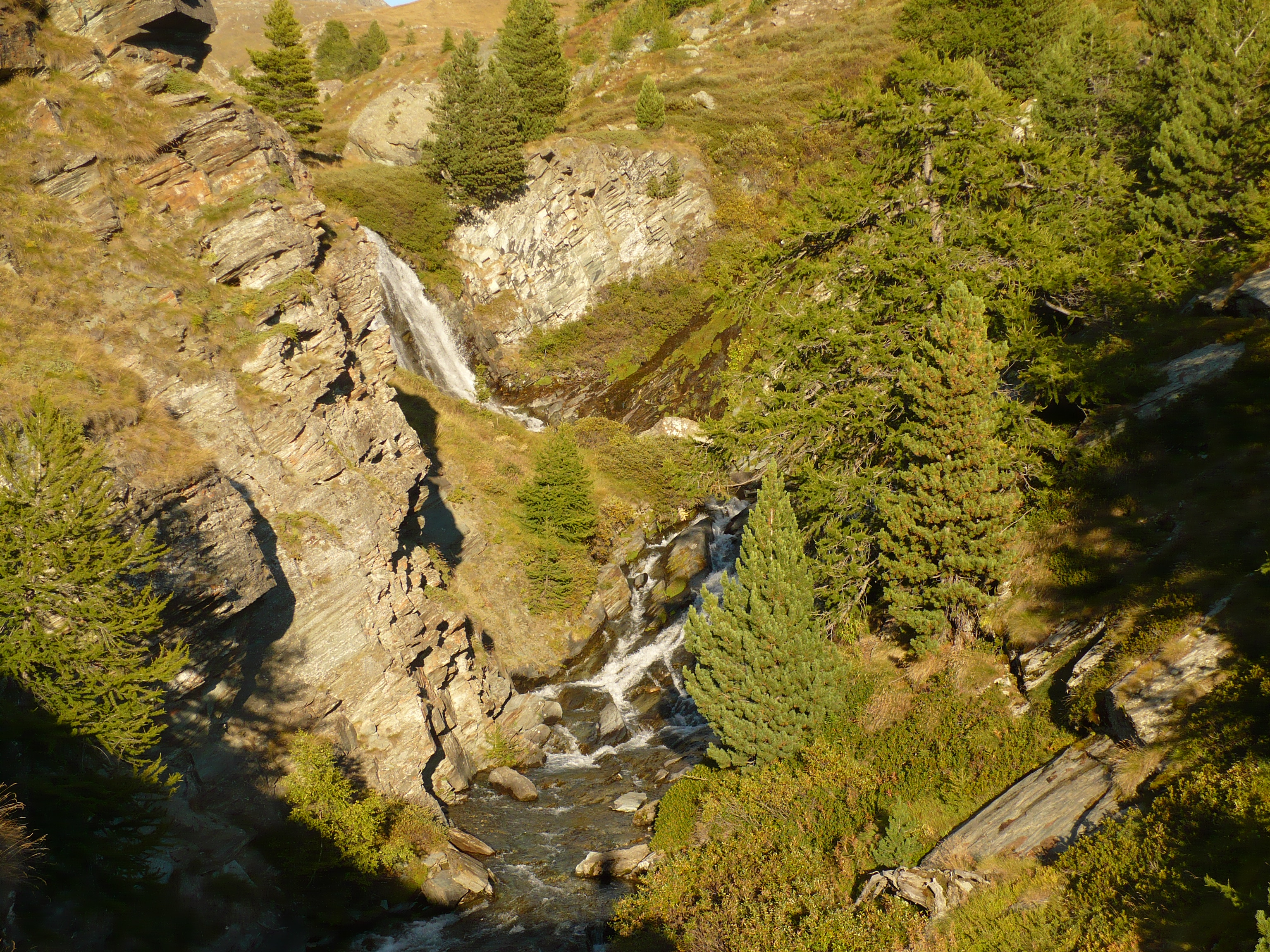 Grand Eyvia - stream of Aosta Valley - Italy